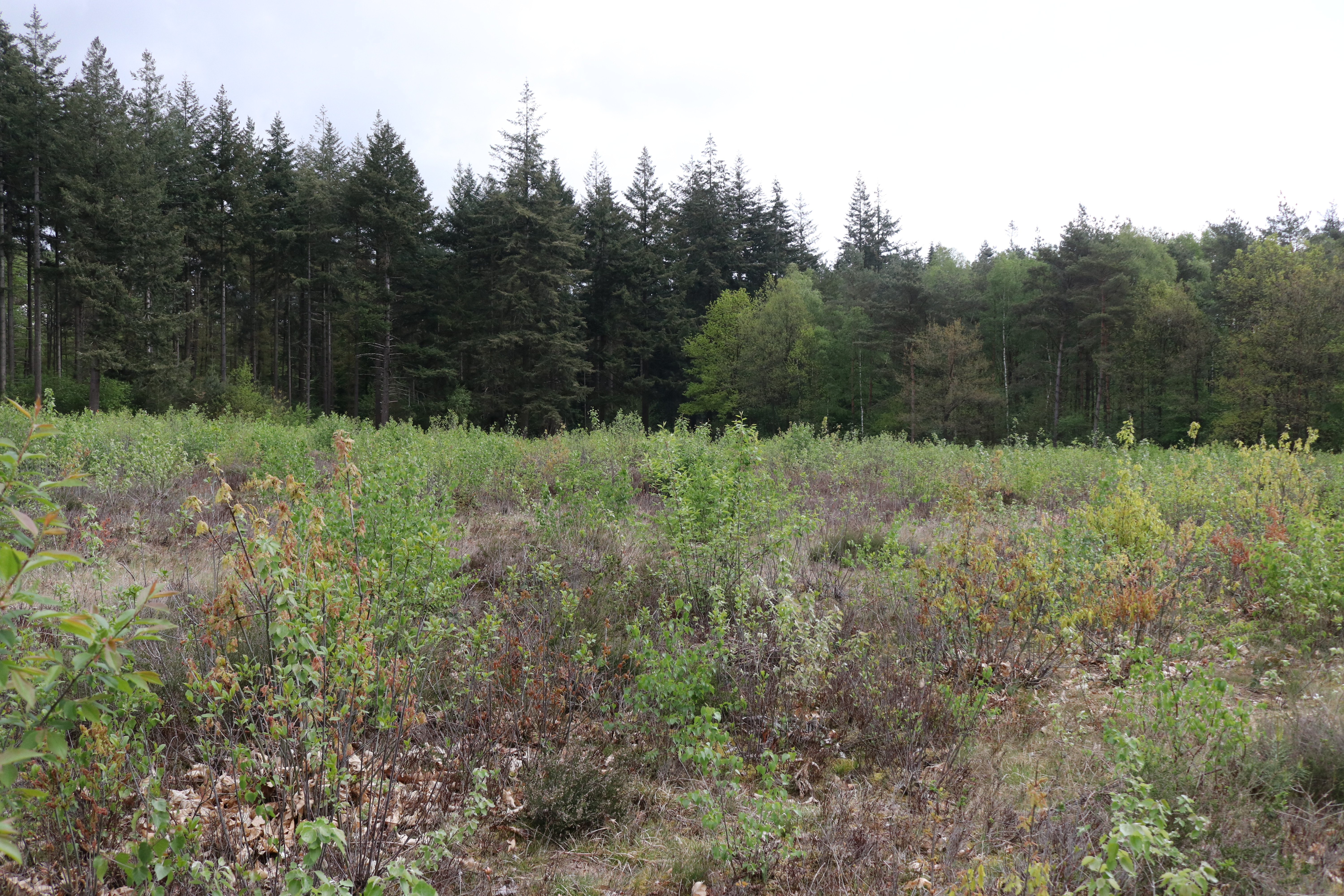 forestry, tree, logging